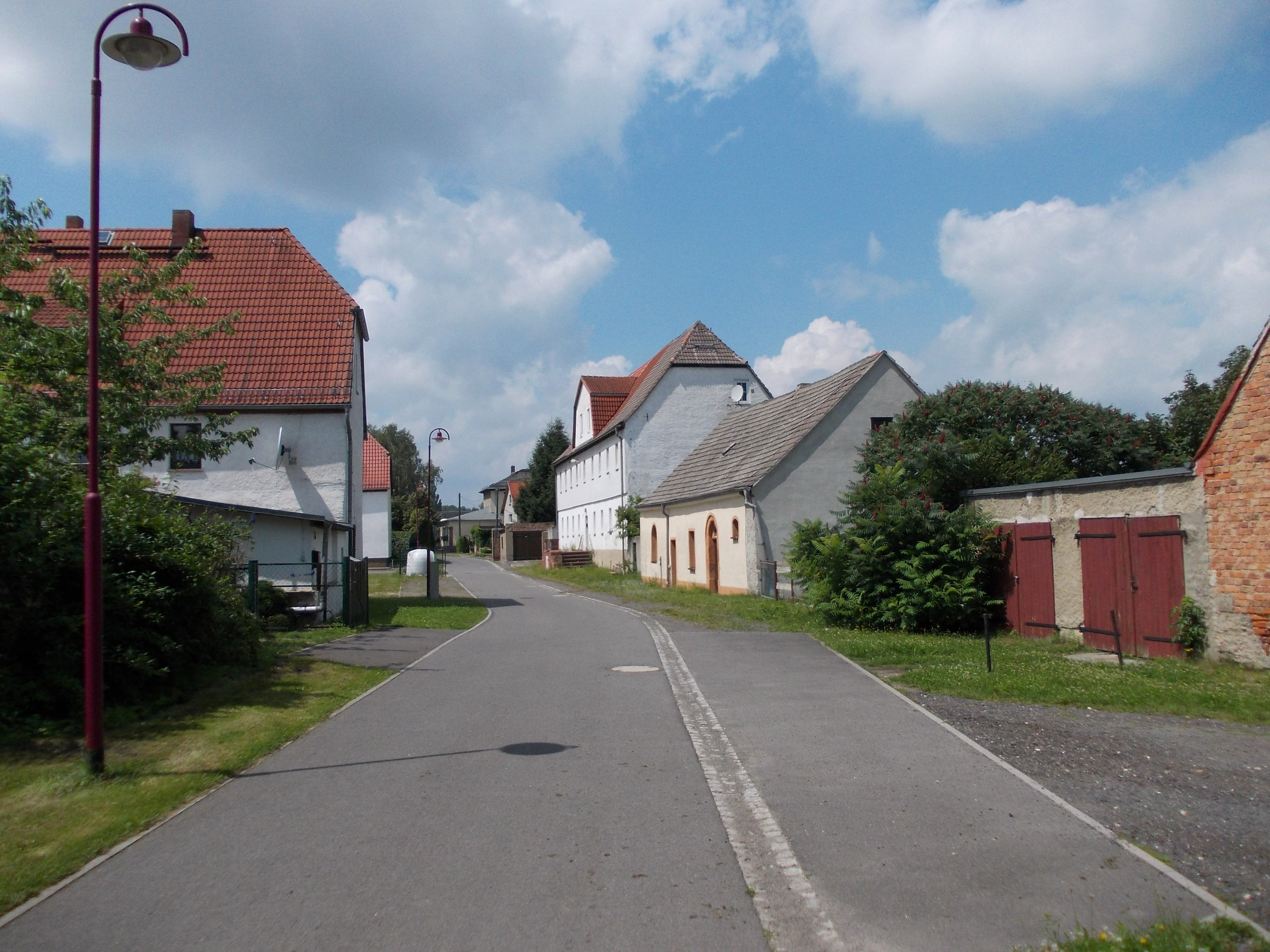 Kesselshain estate (Borna, Saxony)